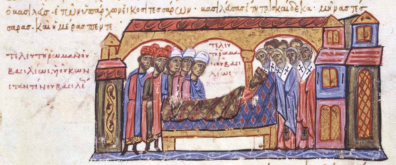 Romanos II at his deathbed